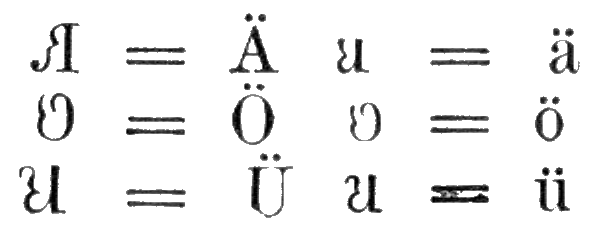 Alternate forms for the umlaut vowels for the written form of Volapük, proposed by Johann Martin Schleyer, nevertheless they were rarely used.